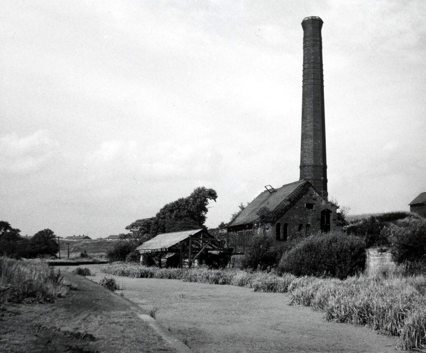 Ladyshore Colliery on the Manchester, Bolton and Bury Canal, in 1968